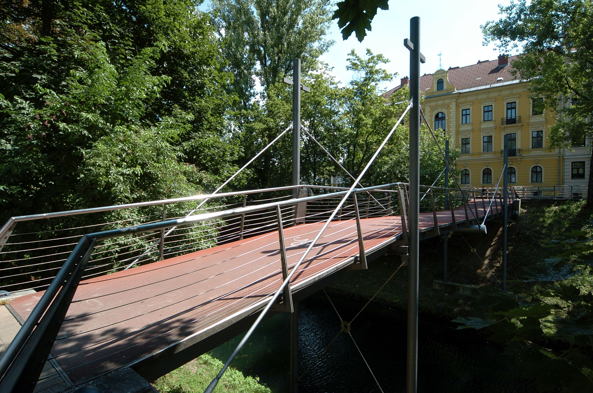 Jergitsch bridge from the year 2000 across the Lendkanal, the artificial outflow from the Lake Woerth in Klagenfurt, Carinthia, Austria